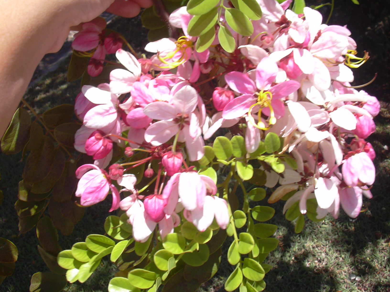 Cassia javanica (flowers). Location: Maui, Baldwin Ave